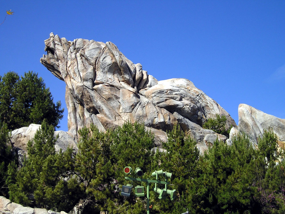 Grizzly Peak by Ellen Levy Finch Feb 2006